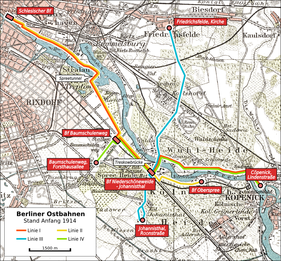 Map of the tram of the Berliner Ostbahnen